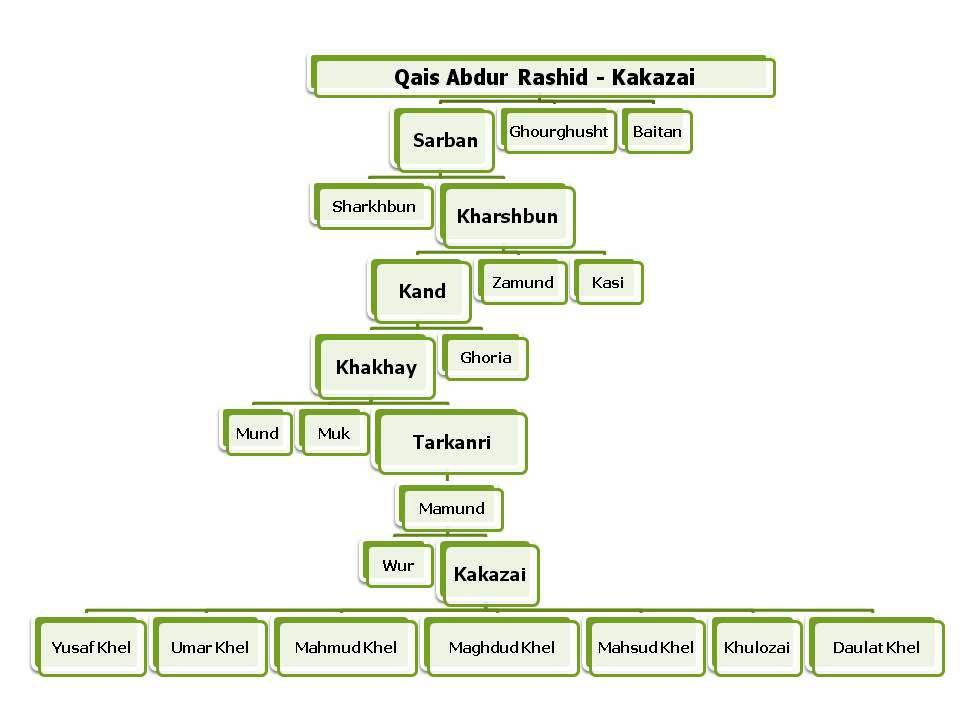 Family Tree from Qais Abdul Rashid to the Kakazai (also known as Loi Mamund) Pashtuns - English